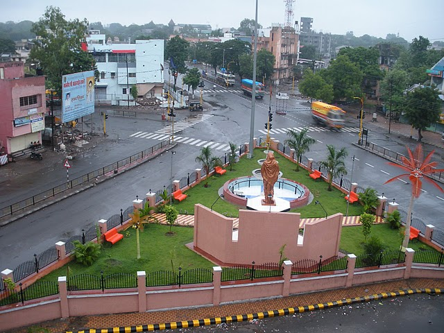 Ahilyabai Holkar Chowk, Station Road, Osmanpura, Aurangabad.